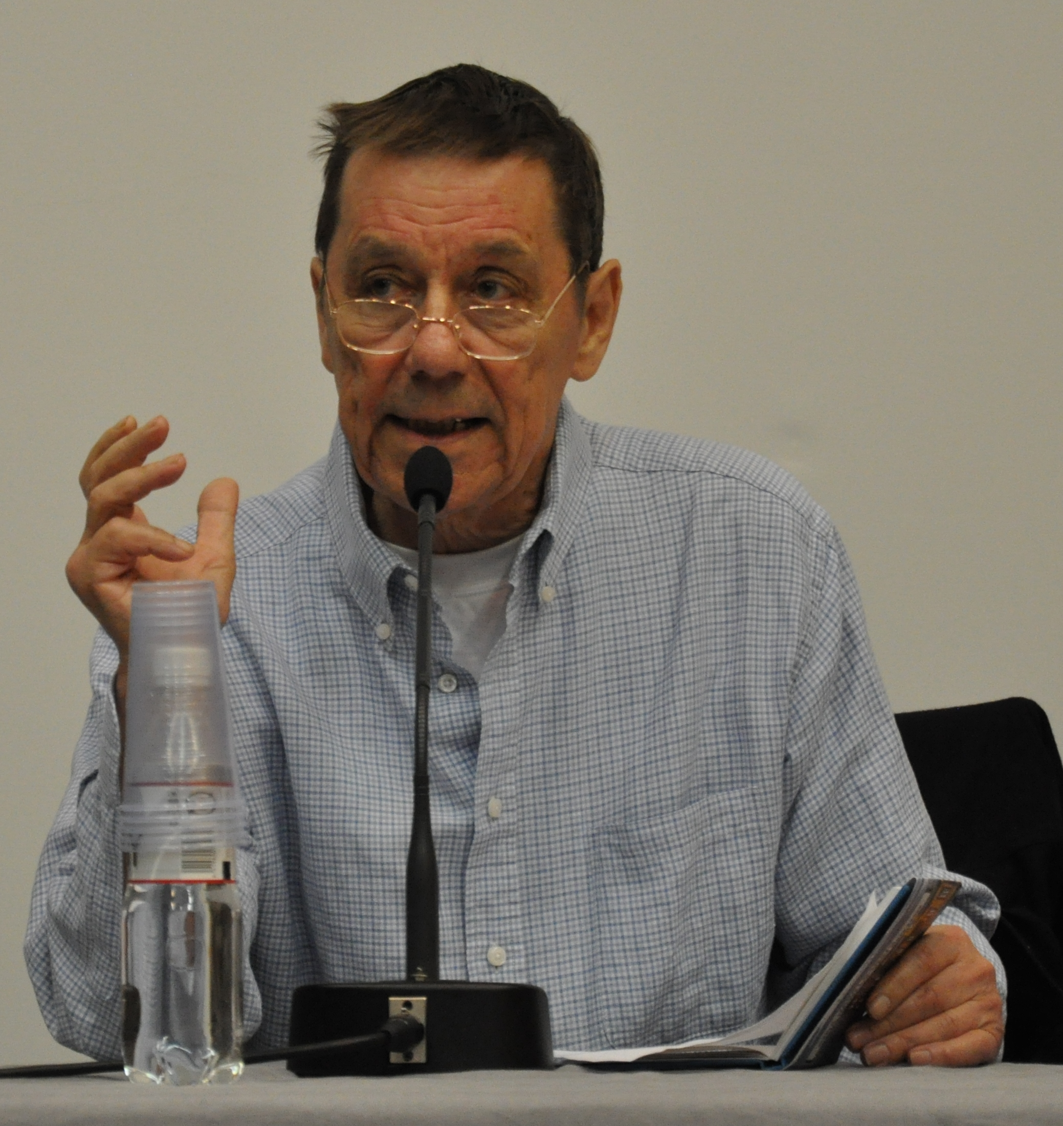 Finnish journalist Hannu Taanila at the Turku Book Fair 2009.